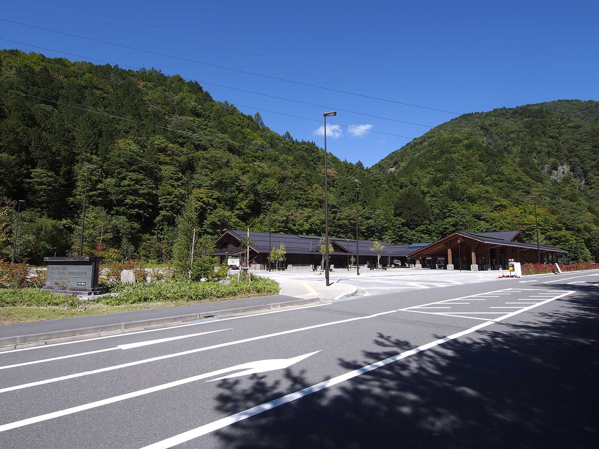 Sawando National Park Gate, tourist information center and bus terminal for Kamikochi.